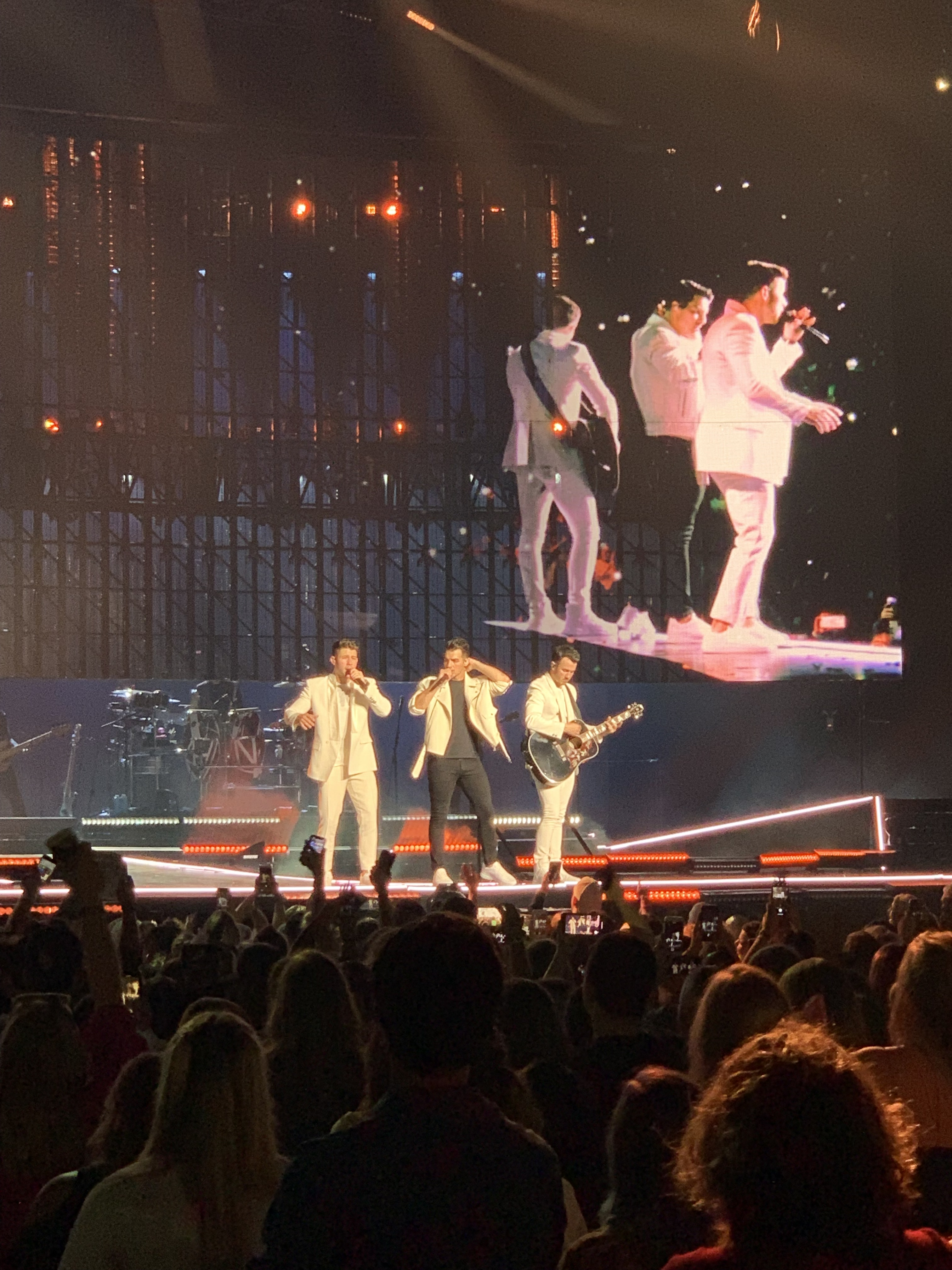 (Left to right) Nick, Joe, and Kevin Jonas perform on stage at Bridgestone Arena as a stop on their Happiness Begins Tour.